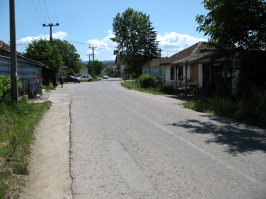 Street in Tečić